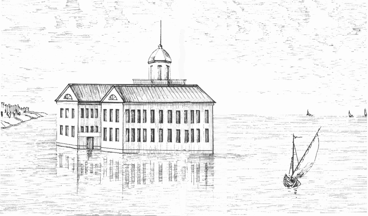 Podzorny Palace